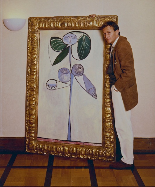 Thomas Ammann with La Femme Fleur at his Zurich gallery 1989